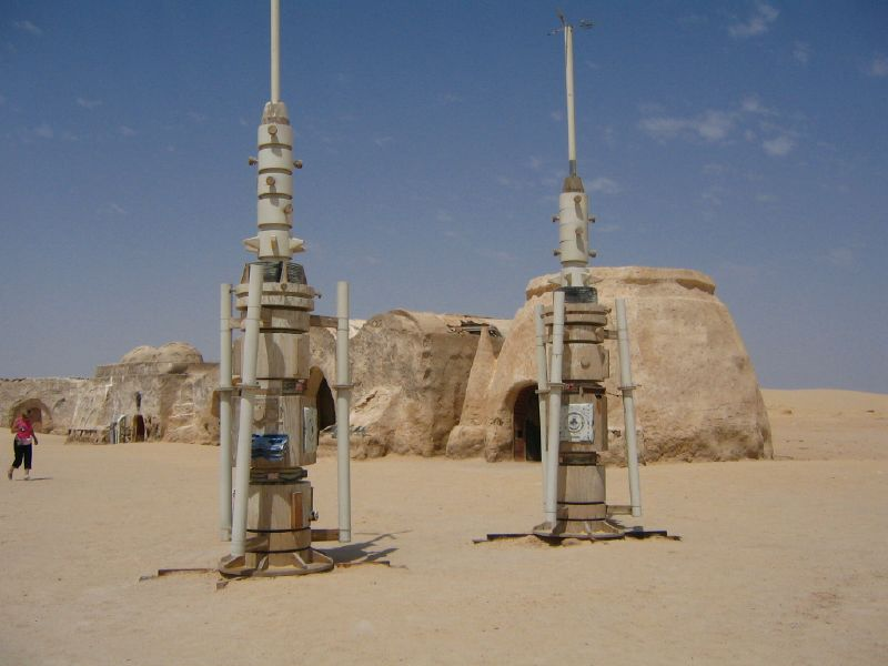 Tatooine. The place where the Star Wars film was shot (somewhere in Tunisia)